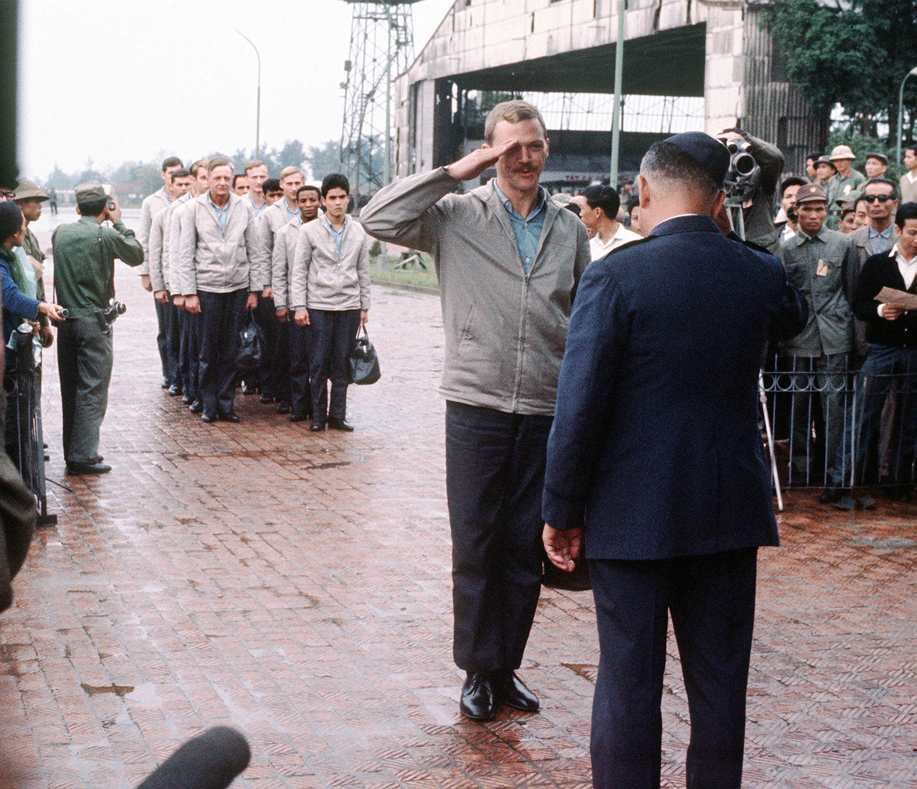 American POWs held in Vietnam being returned to U.S. military control at Gia Lam airfield, Hanoi. In foreground facing camera is USAF Capt. Robert Parsels.